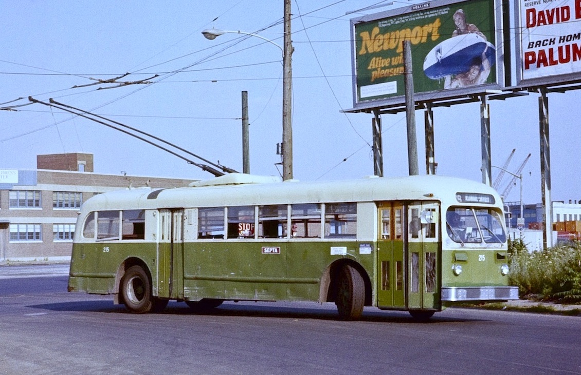 SEPTA (Philadelphia) trolleybus 215, a 1947 ACF-Brill TC44, turns west onto Snyder Avenue from Columbus Blvd., at the east end of route 79, in 1978.